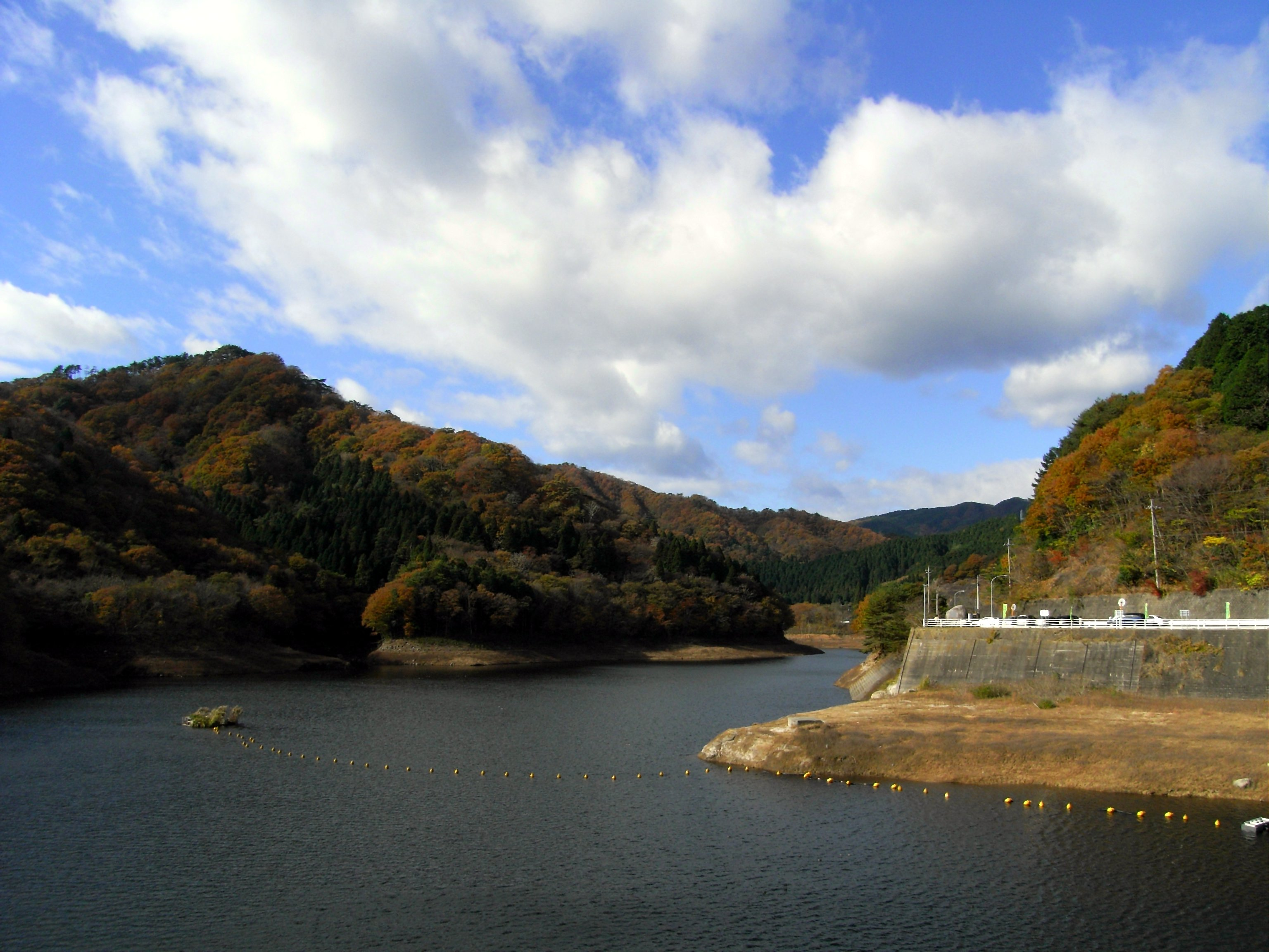 Lake Hananukiko(Hananukigawa river/Ibaraki Pref./Japan)